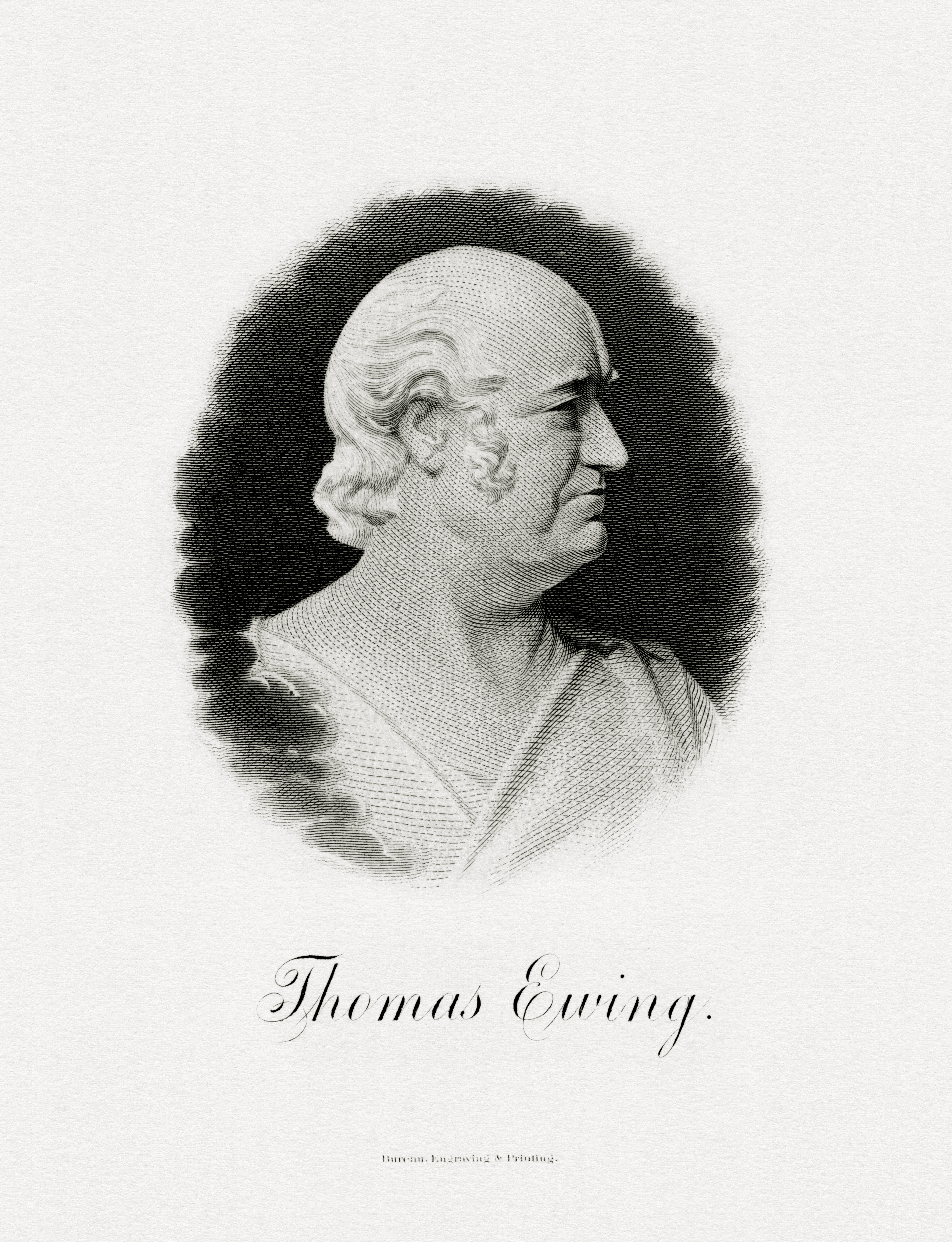 Engraved BEP portrait of U.S. Secretary of the Treasury Thomas Ewing